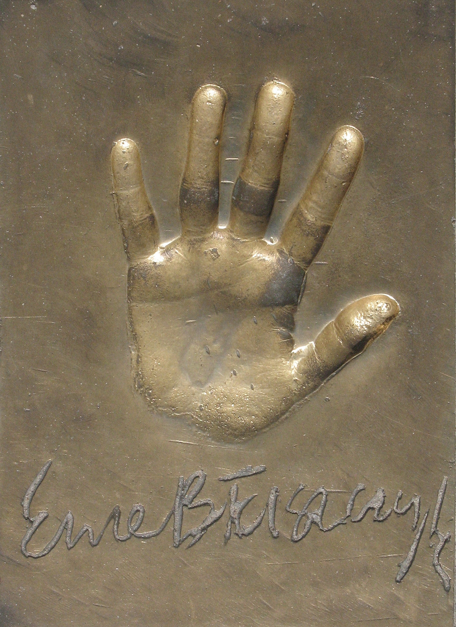 Ewa Błaszczyk - handprint and signature in Międzyzdroje